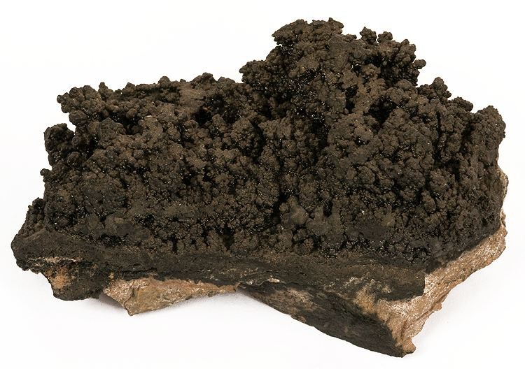 Hetaerolite Locality: Campbell Mine (Campbell shaft), Bisbee, Warren District, Mule Mts, Cochise County, Arizona, USA (Locality at ) Size: 8.3 x 4.4 x 4.2 cm. Little-known hetaerolite is a secondary mineral associated with other manganese minerals, primarily in hydrothermal ore deposits. Interestingly, its type locality is Franklin, the only locality that could rival Bisbee (where this is from) as "the" great American mineral locality. This is an extremely rich specimen, with the hetaerolite piled up in stalactitic form 2.5 cm thick on the matrix. Ex. Dave Stoudt collection, and in an older collection before that in the early 1950s. But the specimen may be much, much older. From the 1900 Level.